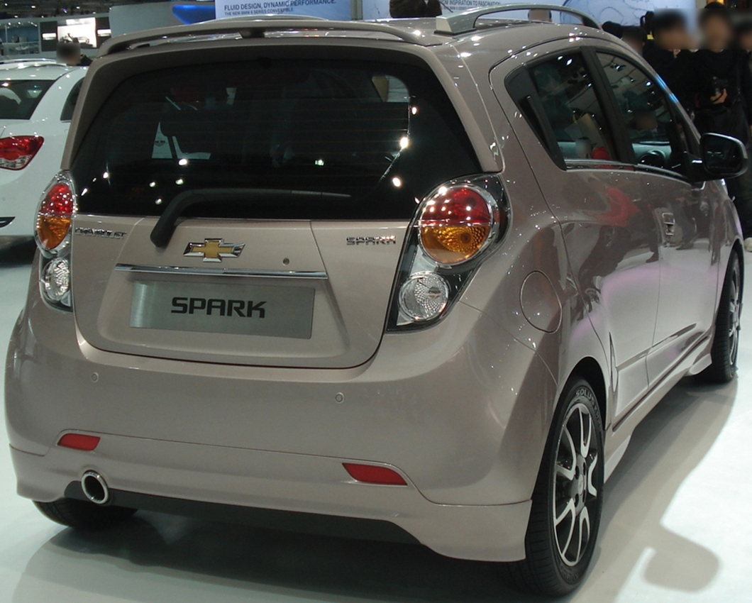 Chevrolet Spark